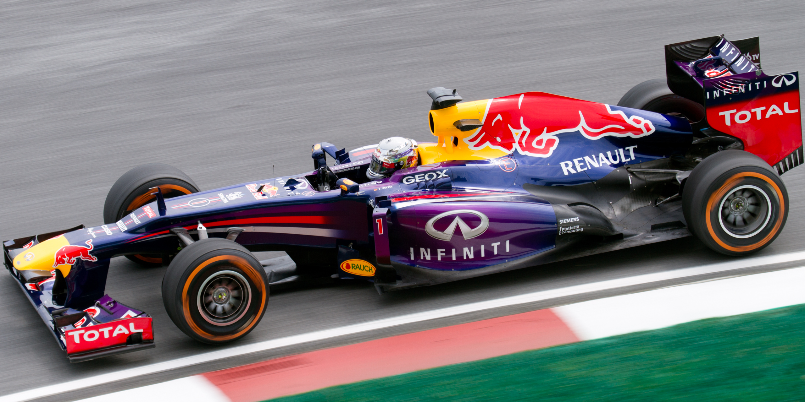 Formula One 2013 Rd.2 Malaysian GP: Sebastian Vettel (Red Bull) during the first practice session on Friday.